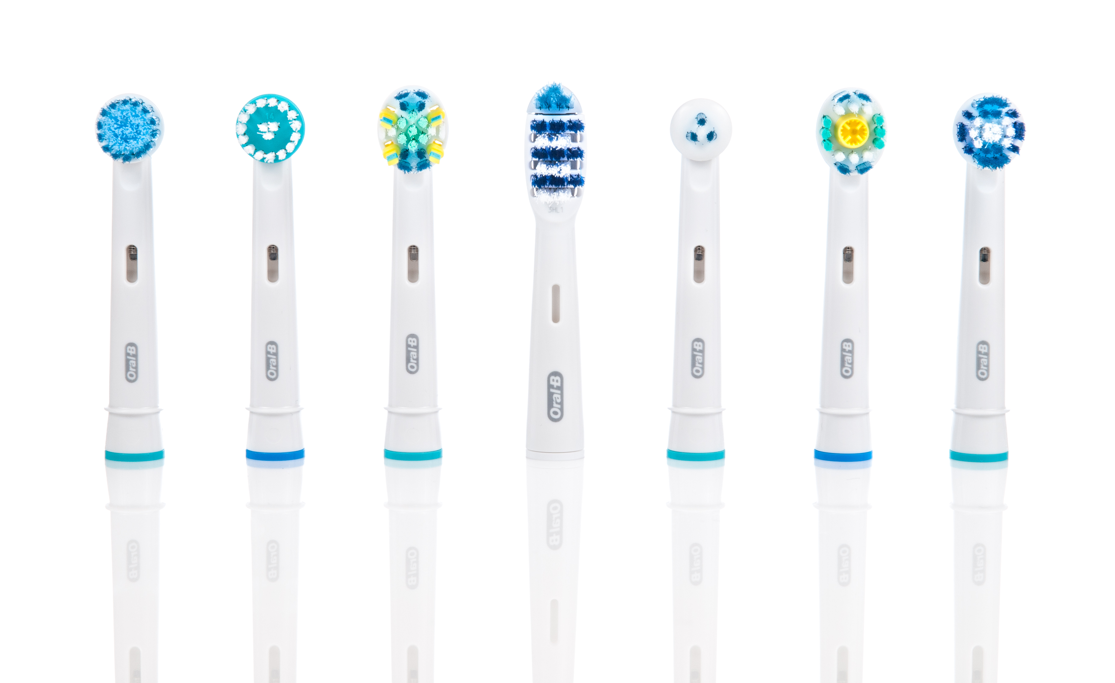 Various electric toothbrush heads for Braun Oral-B electric toothbrush PERMISSION TO USE: you are welcome to use this photo free of charge for any purpose including commercial. I am not concerned with how attribution is provided - a link to my flickr page or my name is fine. If the used in a context where attribution is impractical, that's fine too. I want my photography to be shared widely. I like hearing about where my photos have been used so please send me links, screenshots or photos where possible.